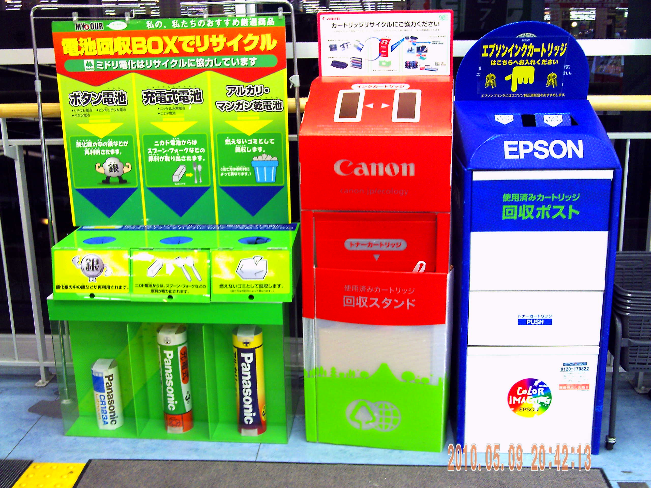 Recycle-Box_at_Midori